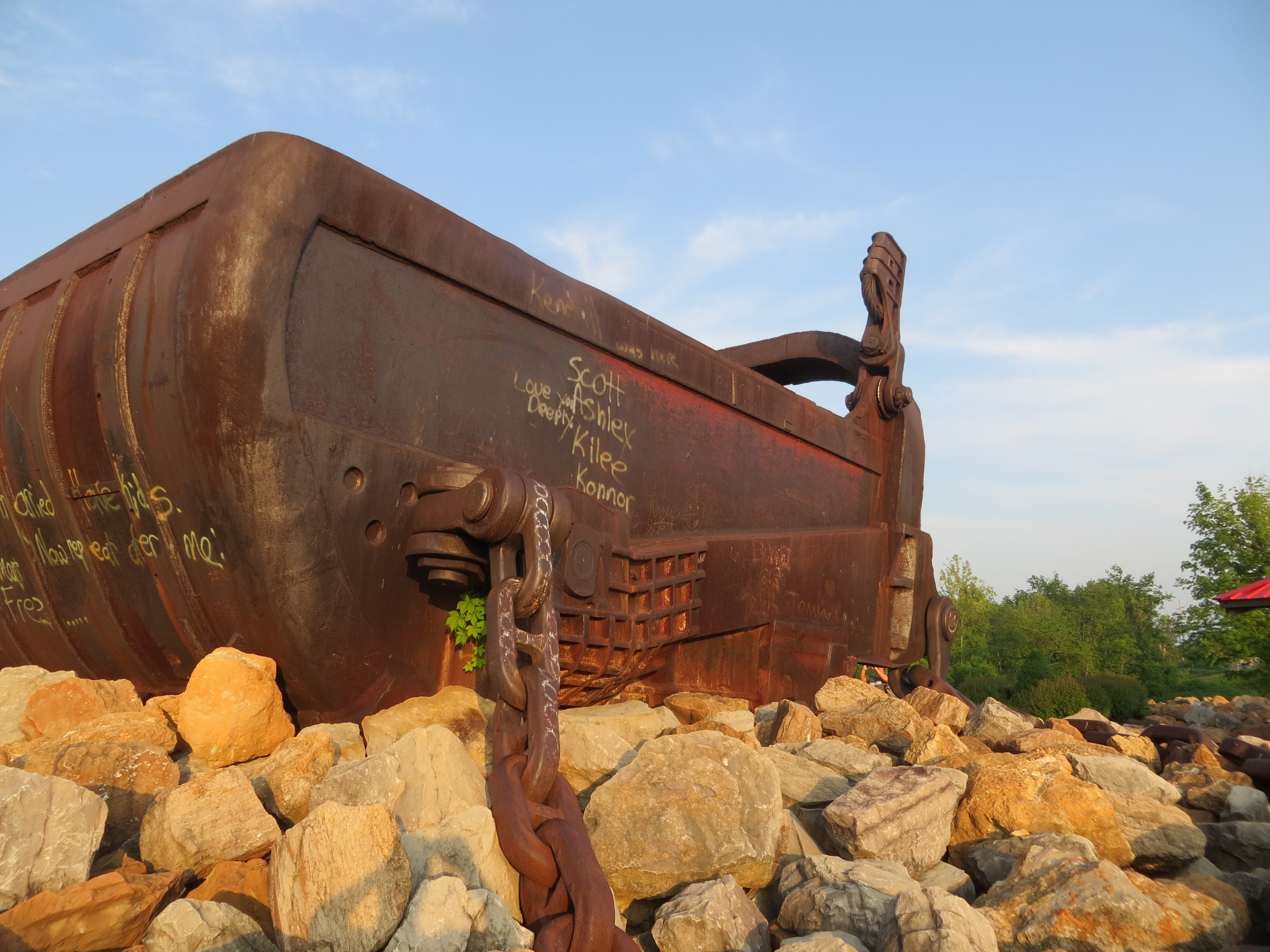 The bucket from the Big Muskie, the largest single-bucket digging machine ever created.